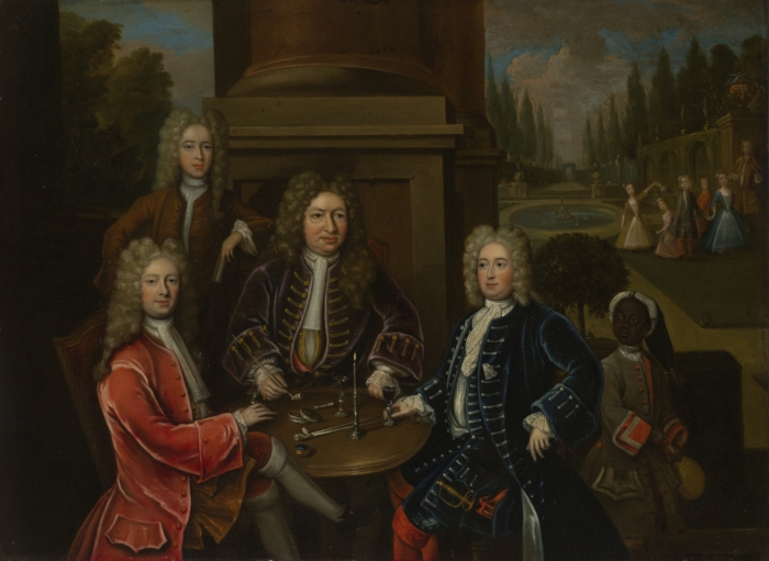 "Elihu Yale," oil on canvas, by an unknown artist. 15 1/2 in. x 21 1/16 in. Yale University Art Gallery, gift of Mrs. Arthur W. Butler. Courtesy of Yale University, New Haven, Conn.